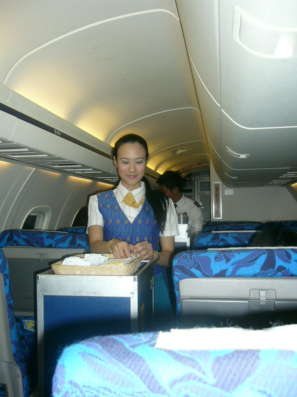 Cabin in a PBair Embraer ERJ 145 LR featuring an air hostess and a steward serving passengers in the air